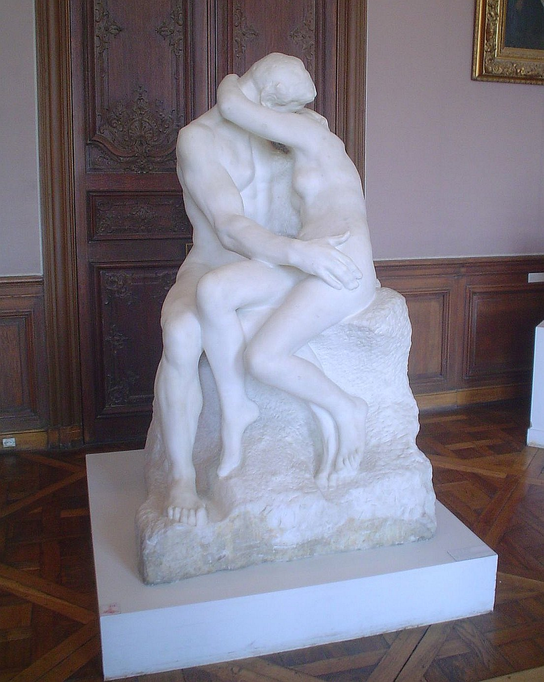 The Kiss (1886) by Auguste Rodin taken at the musée Rodin in Paris, France.